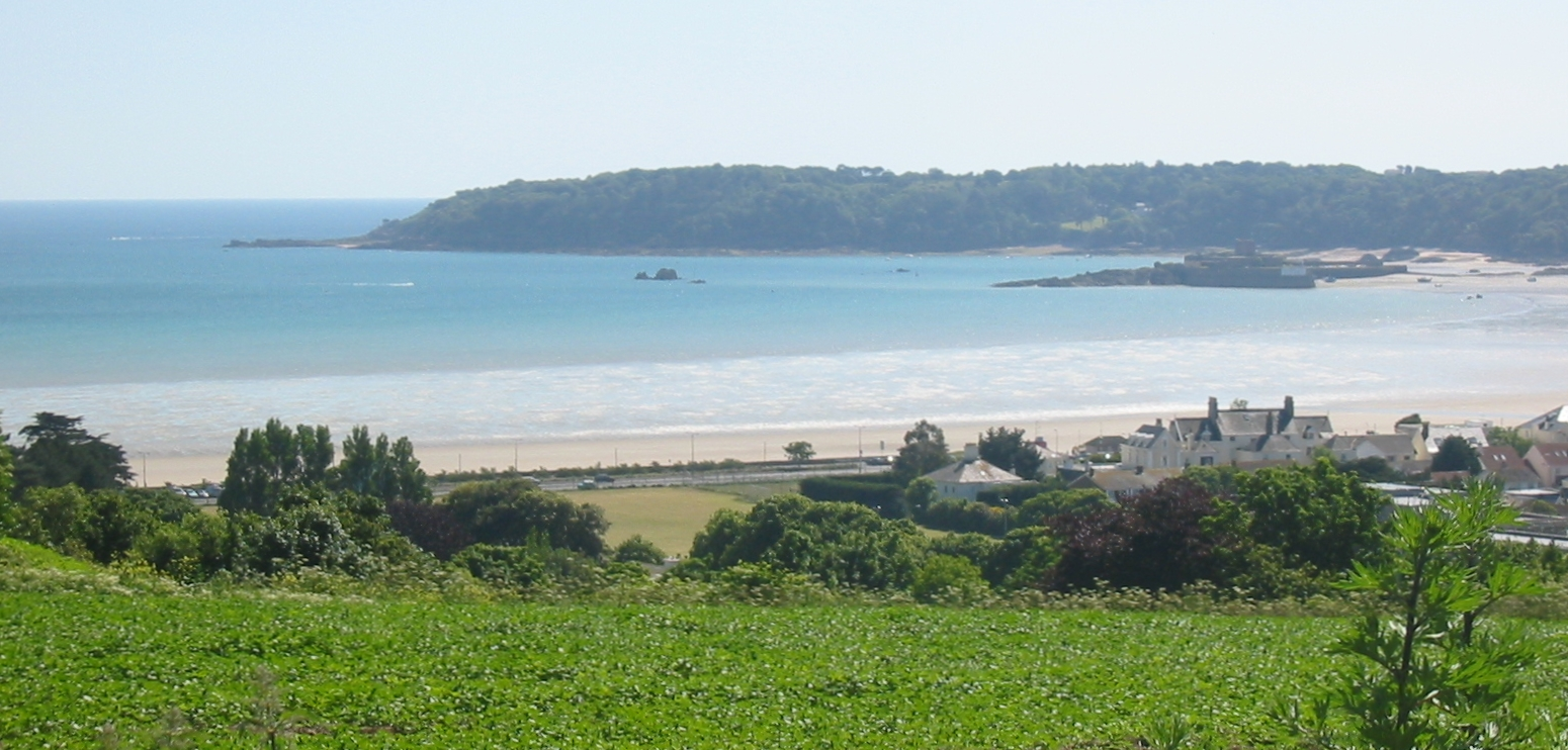 Jersey Nrf: Nièrmont veu l'travèrs d'la Baie d'Saint Aubîn, Jèrri